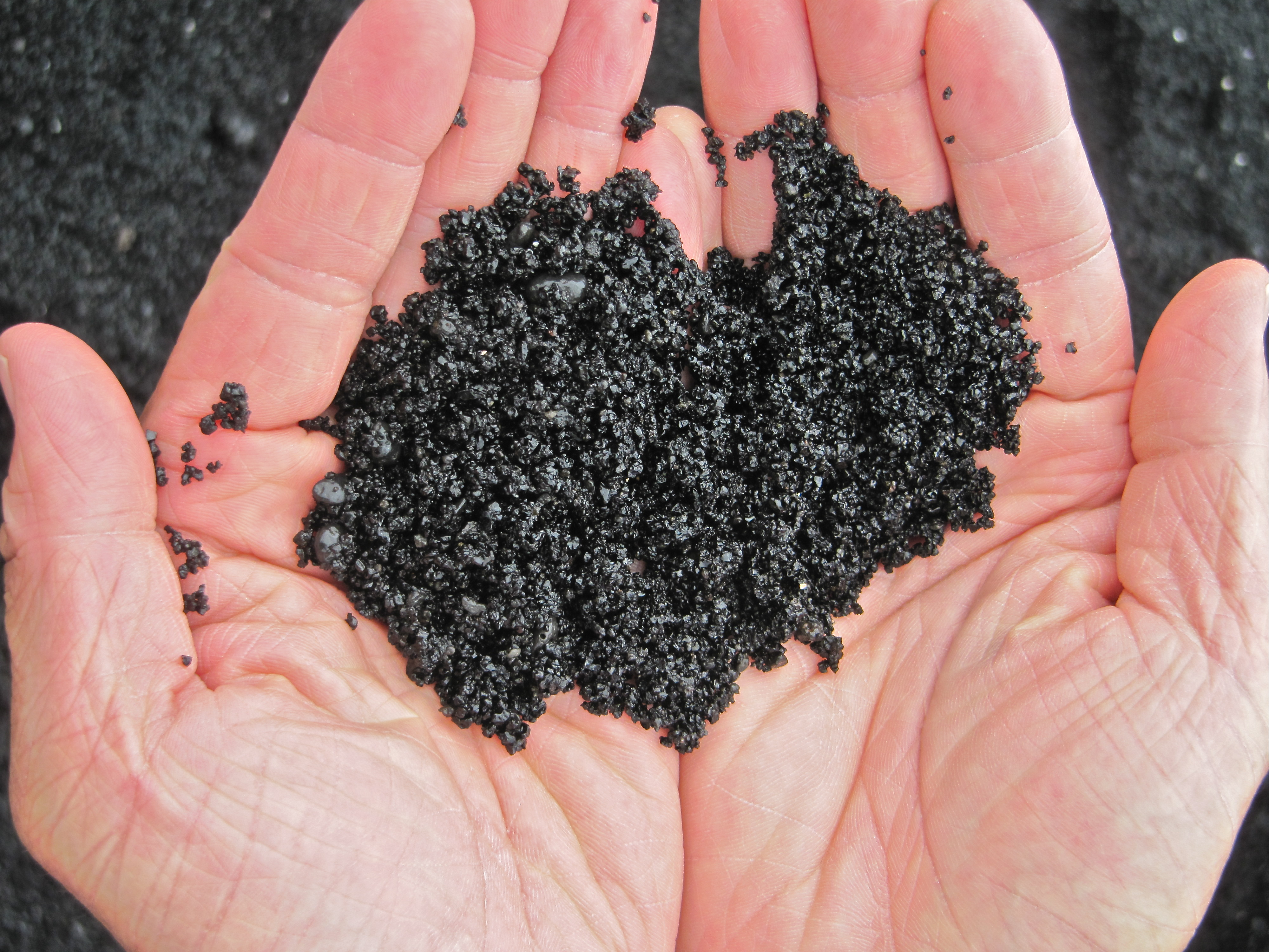 Black sand from a beach on the island of Hawaii